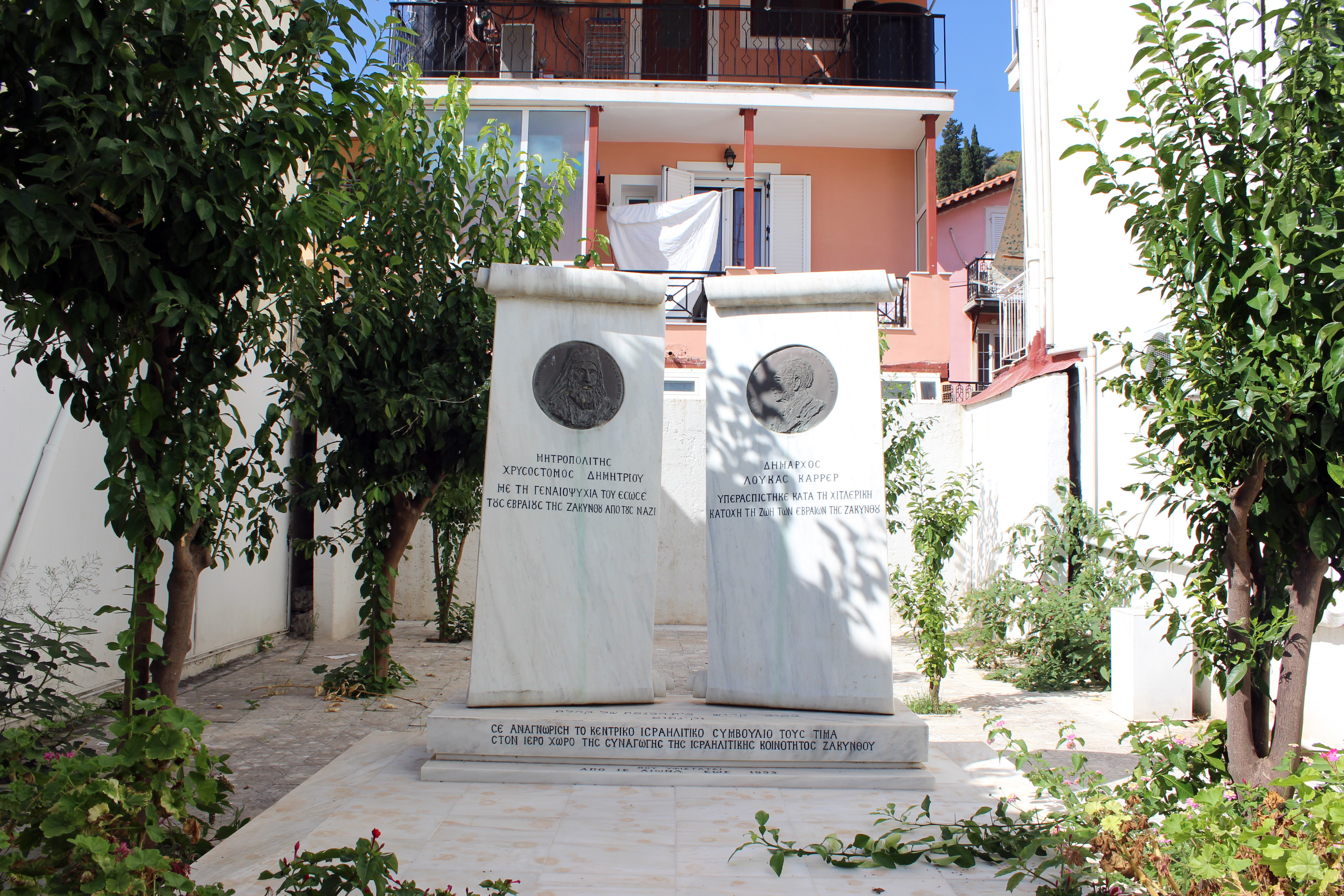 Resistance Memorial, in Zakynthos-City, Zakynthos, Greek Ionian Islands